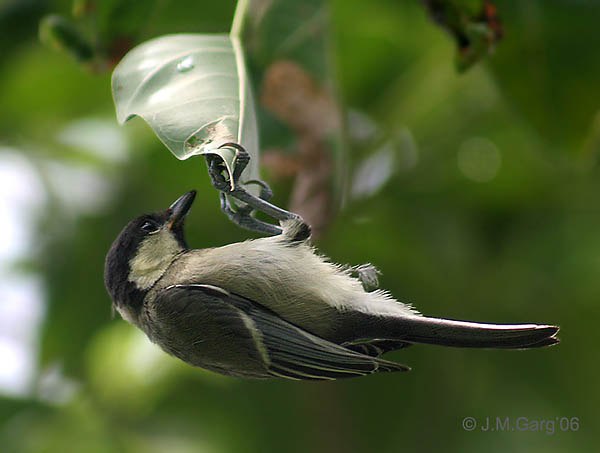 Cinereous Tit Parus cinereus in Kullu District of Himachal Pradesh, India.